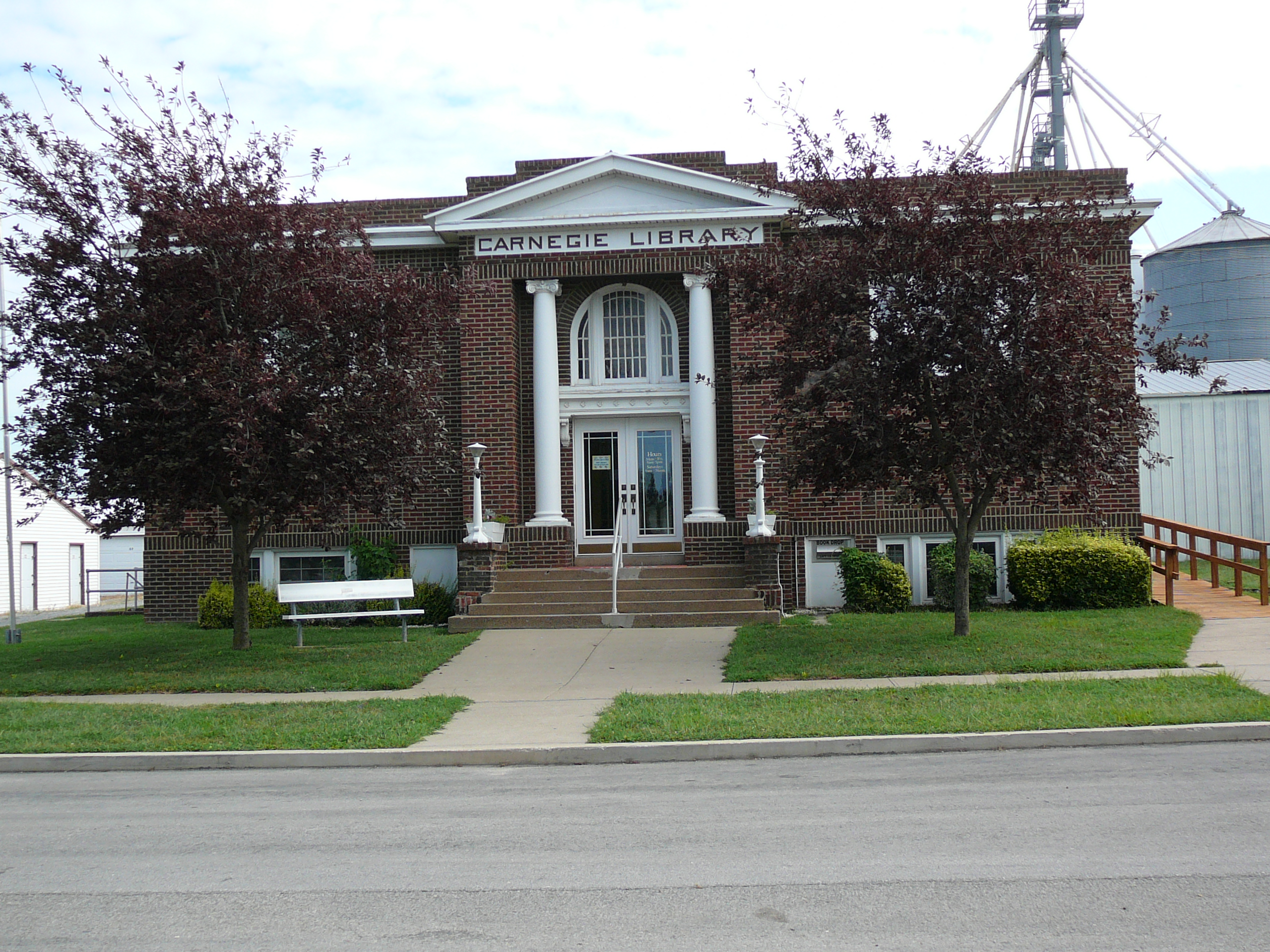 Carnegie libraries of Missouri; Marceline, MO Public Library-Marcheline is the boyhood home of Walt Disney. Marceline is home of the Walt Disney Museum in the old train station.